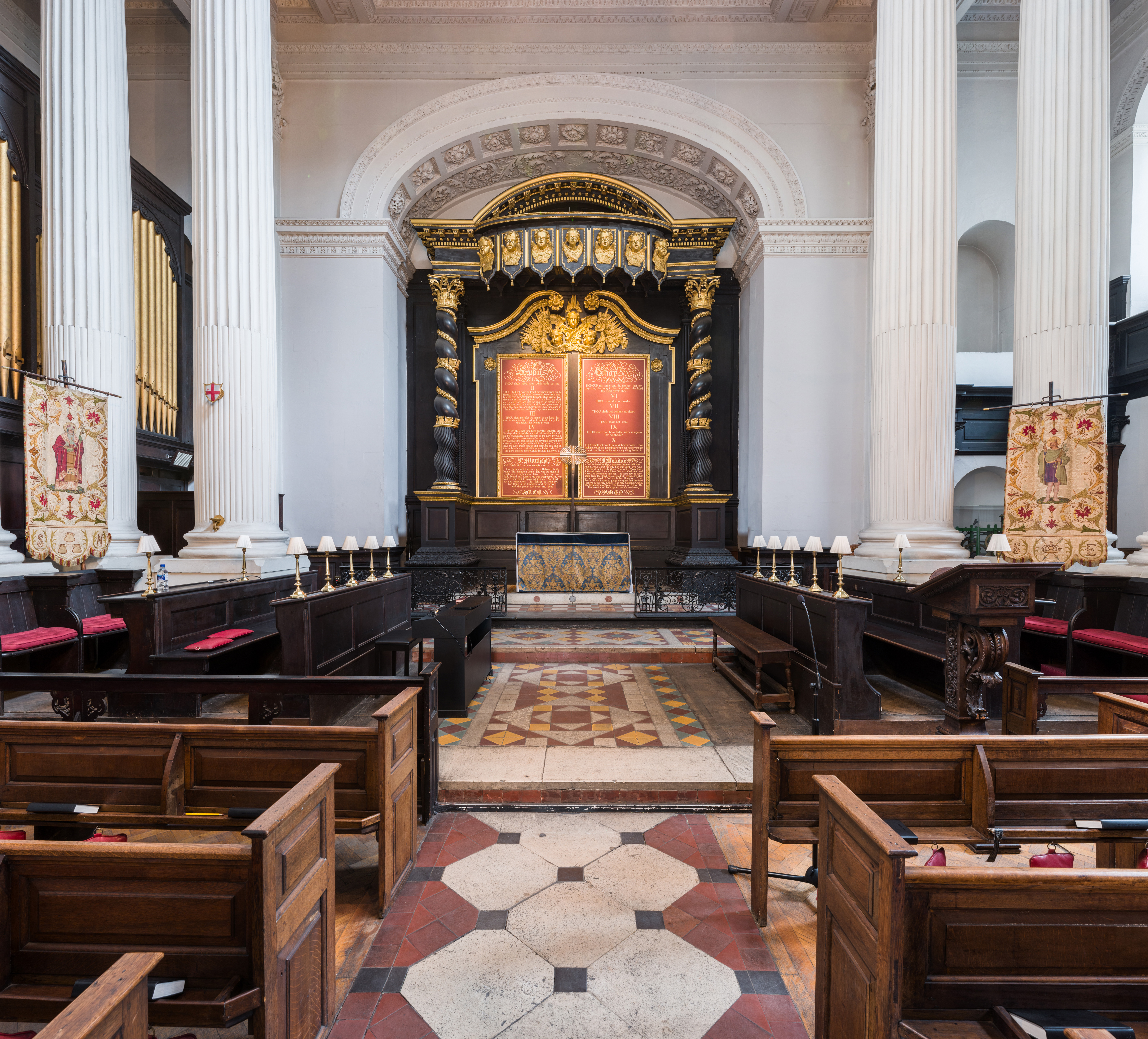 The interior of St Mary Woolnoth facing the altar.